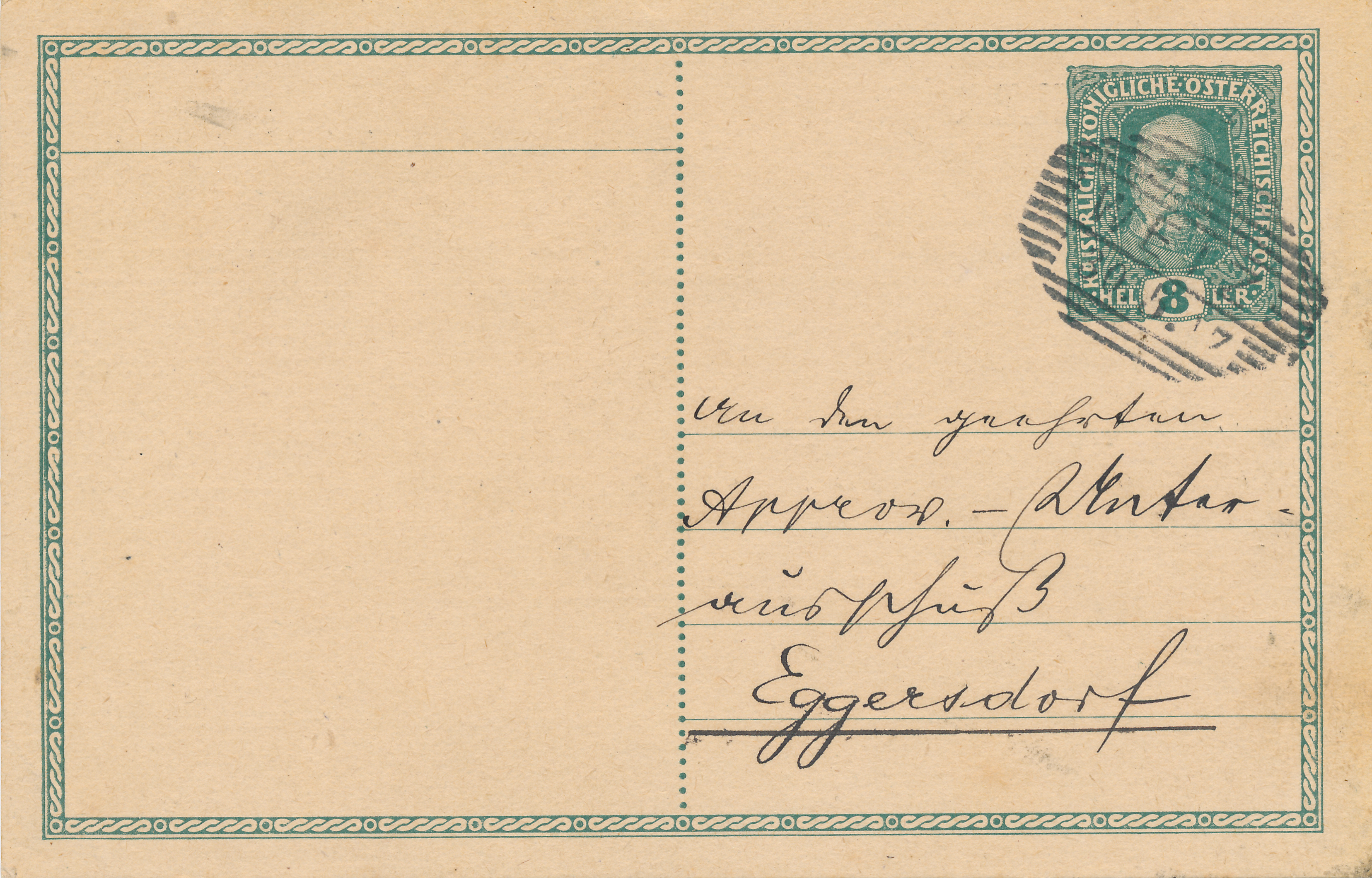 Post of Styria Postcards of Austria